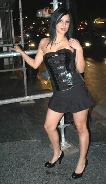 February 10, 2007: On adult industry party to celebrate the release of movie Chasey Reloaded.